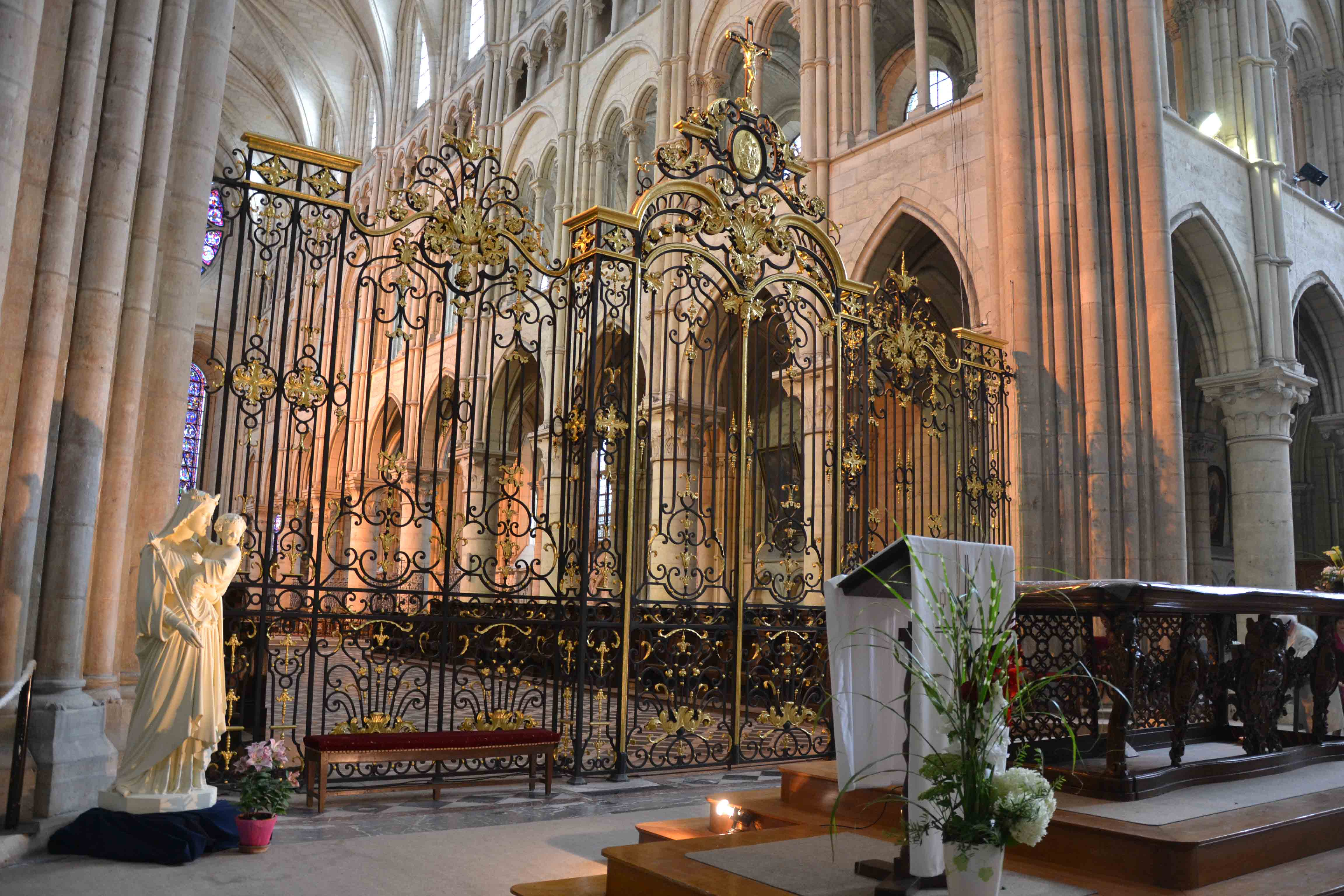 Cathédrale Notre-Dame